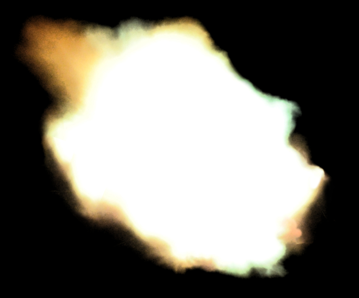 Muzzle flash